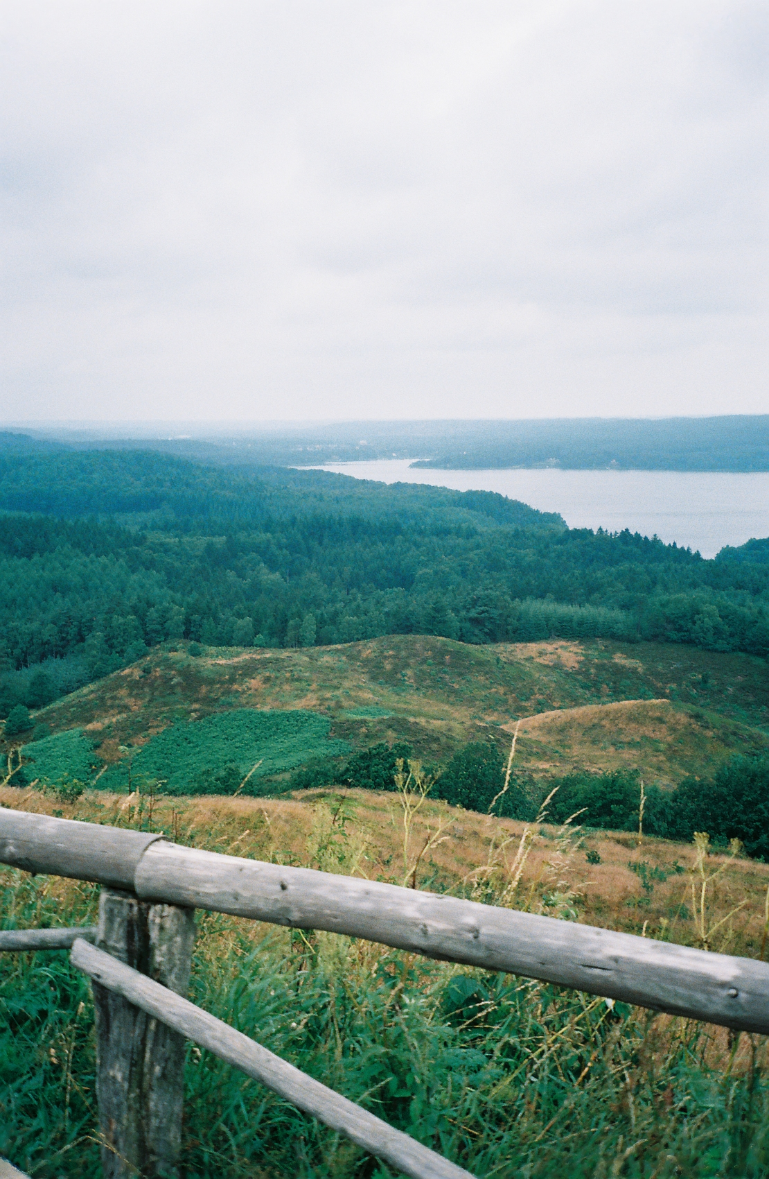 What can be seen from the top of the Himmelbjerget.